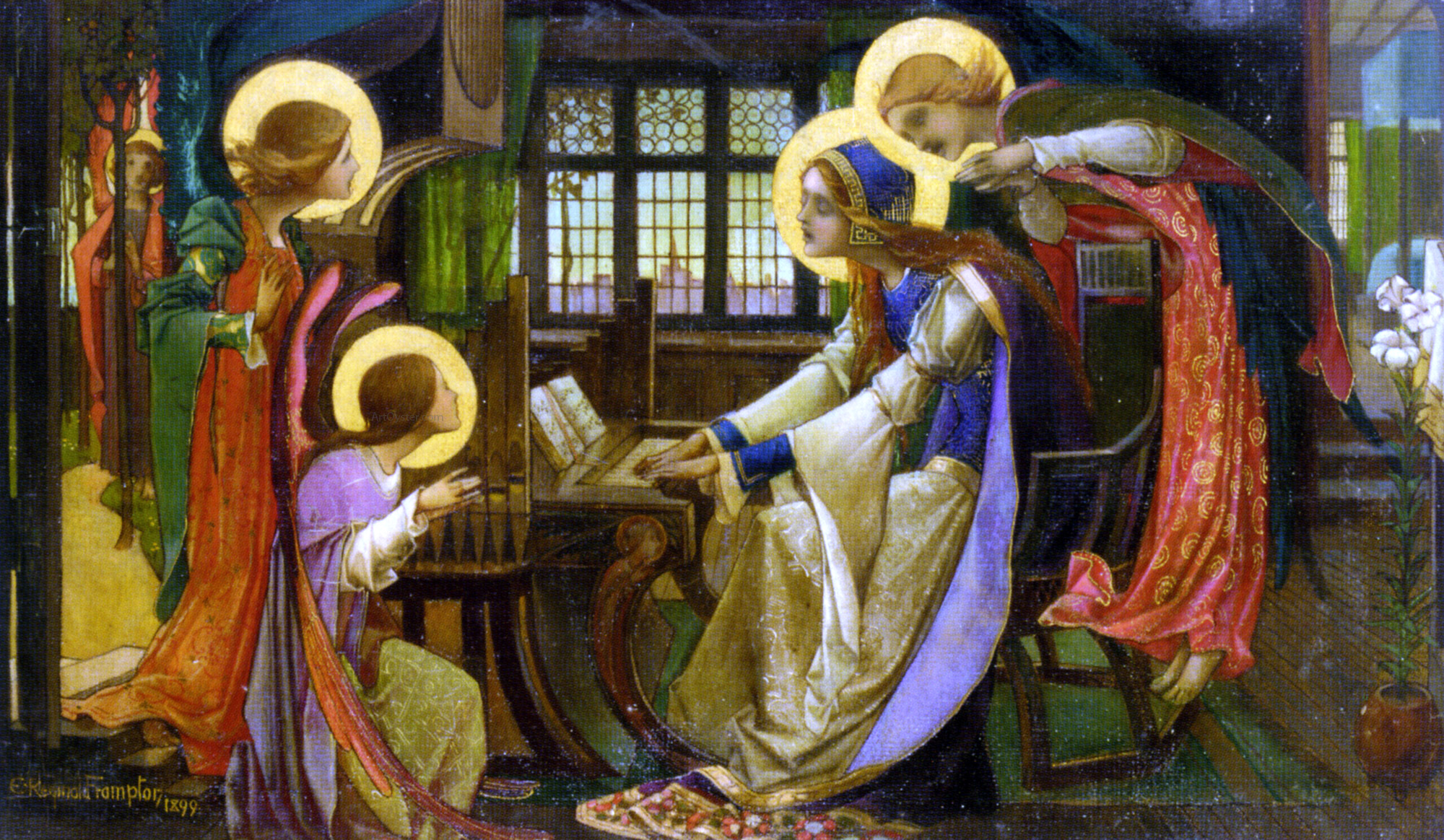 Saint Cecilia